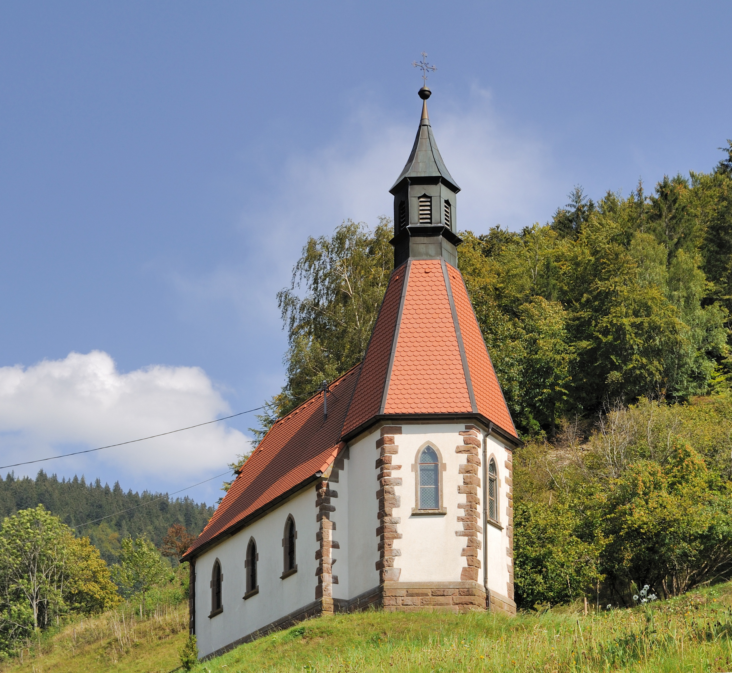 Tunau: Sacred Heart Church